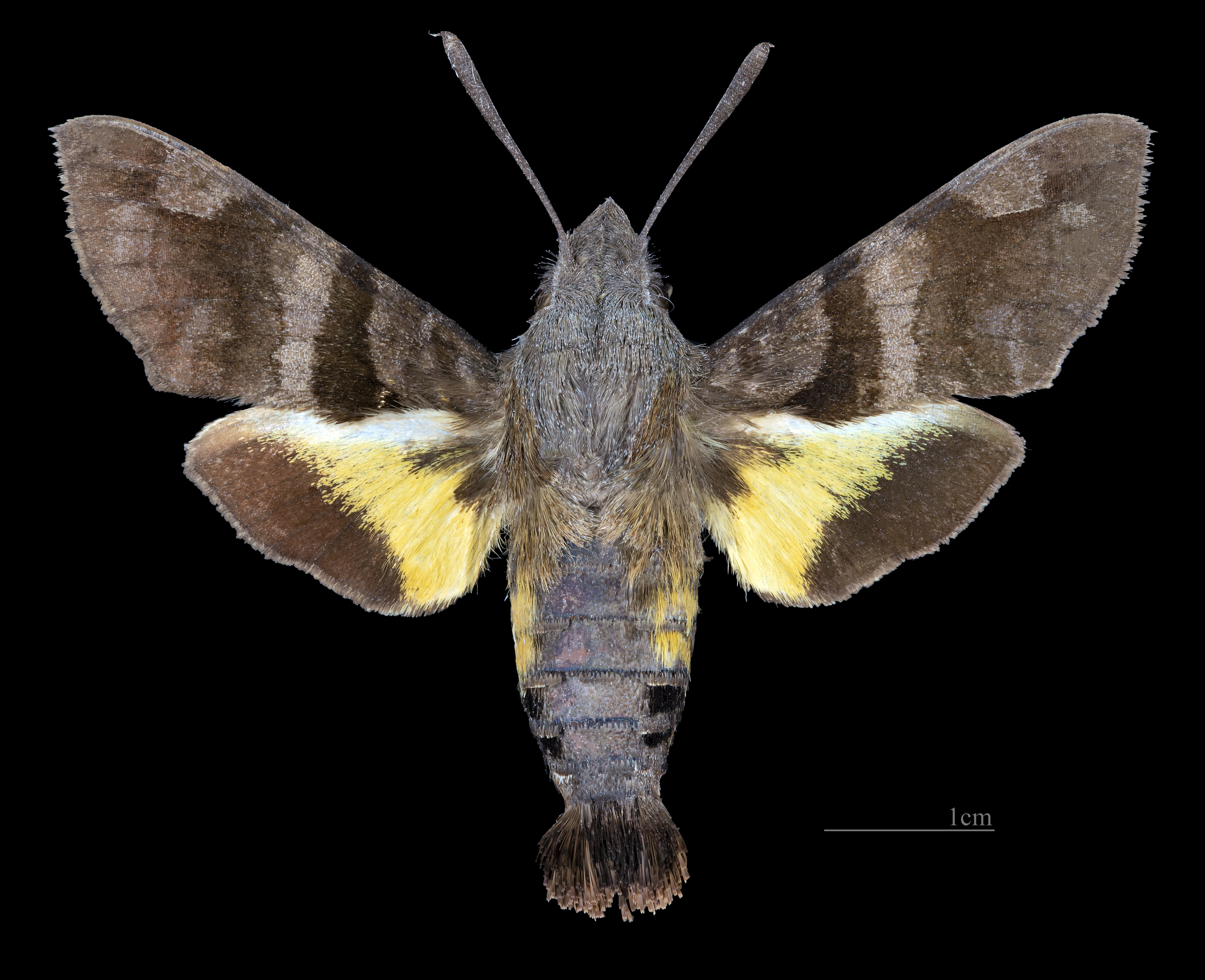 Macroglossum bifasciata - Dorsal side Collection of the Mathematician Laurent Schwartz